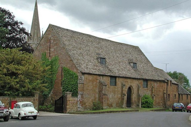 Adderbury, Oxon Spire of St Mary's church visible in distance.